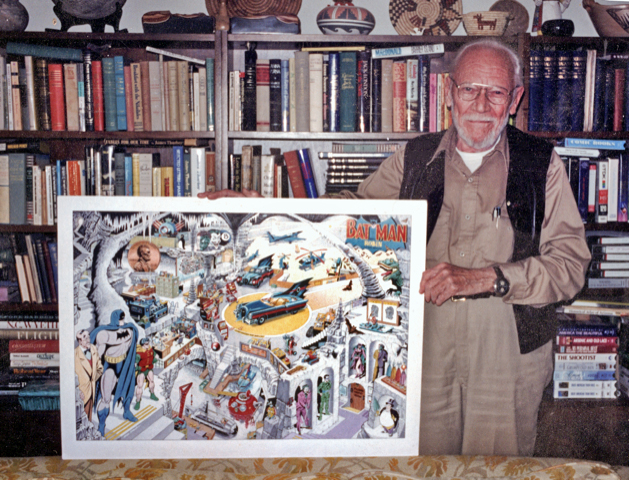 Batman artist Dick Sprang photographed in 1995 at Prescott, AZ, with his drawing "Secrets of the Batcave" Dick_Sprang